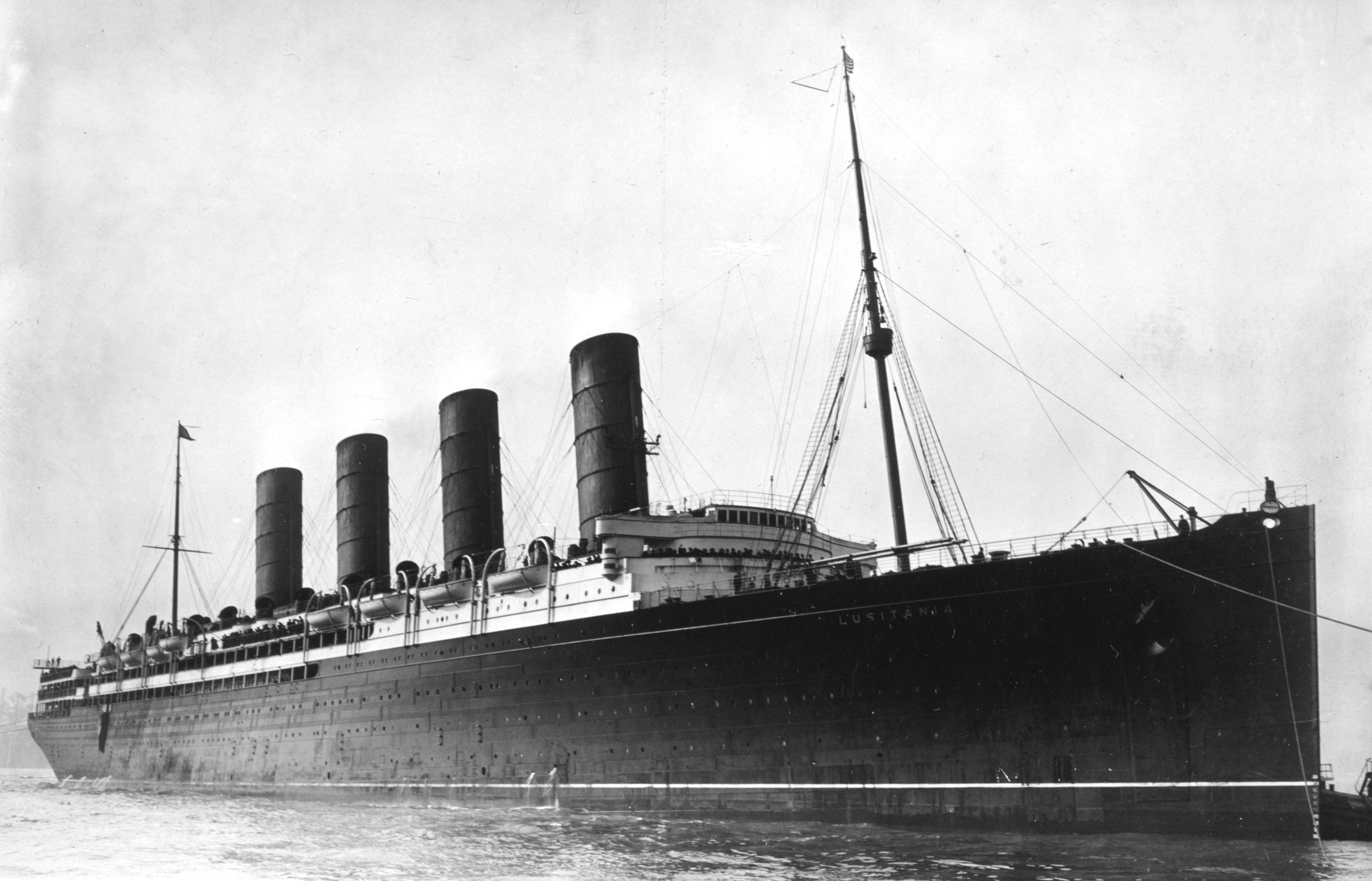 RMS Lusitania coming into port, possibly in New York, 1907-13